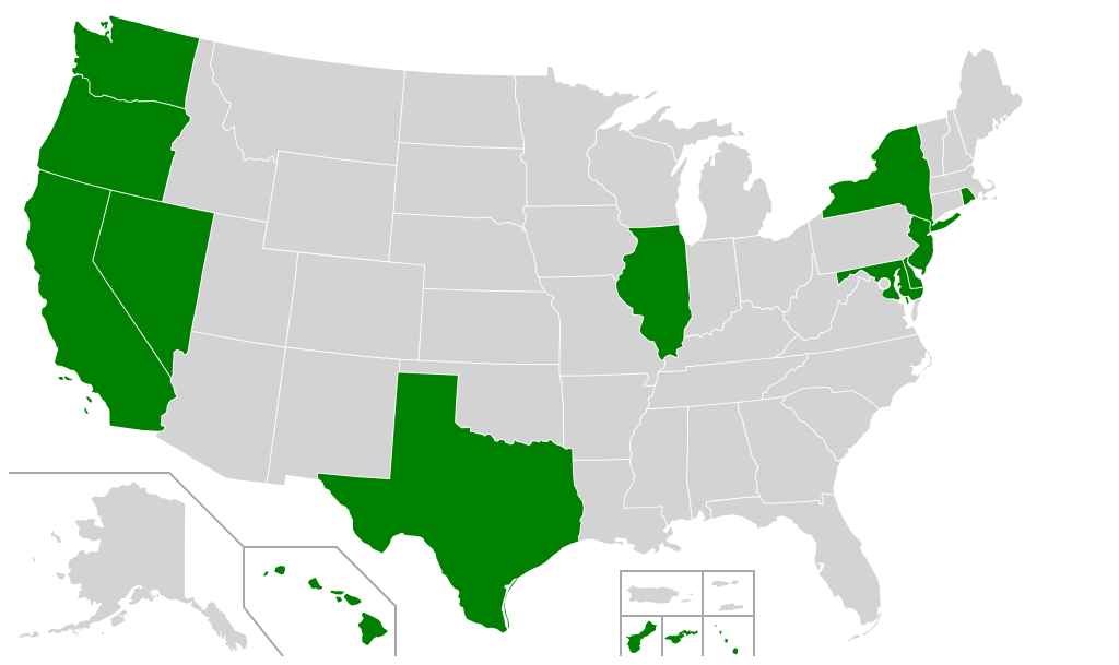 A map of the United States showing the states and territories that have banned the sale and possession of shark fins (shown in green) as of January 2020.